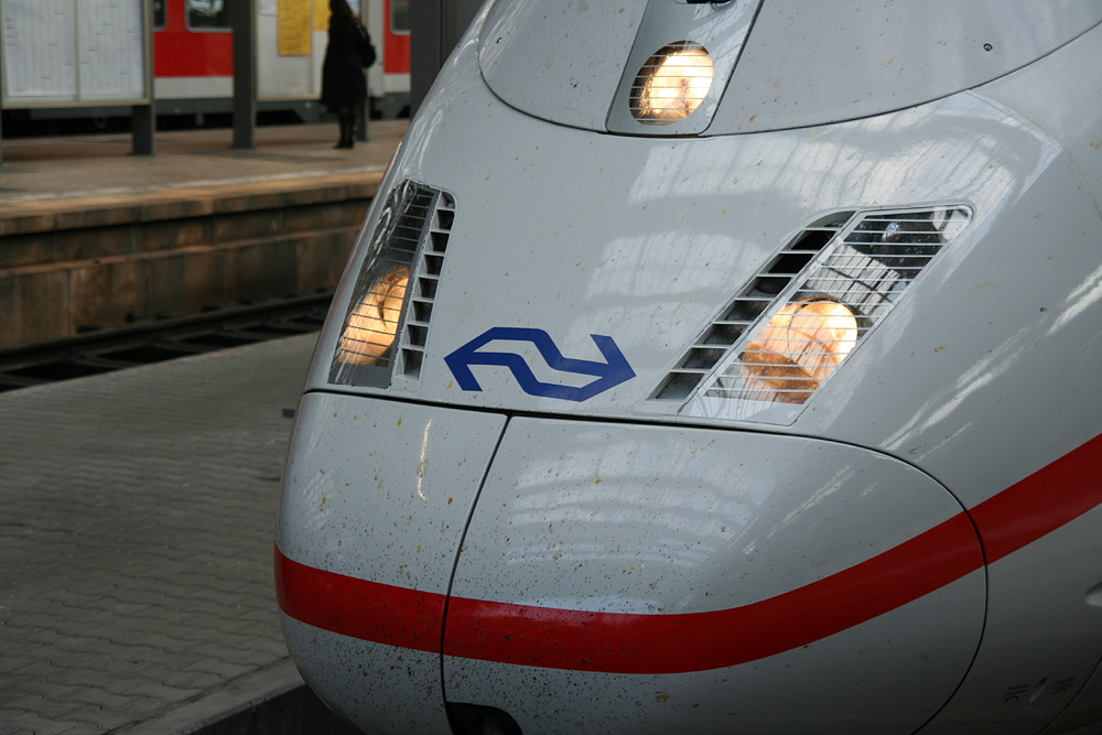 The logo of the Nederlandse Spoorwegen (Dutch national railroad company) on the front of an ICE 3M train